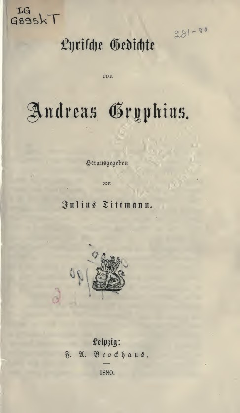 Title page